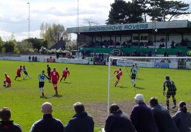 Bromsgrove Rovers - Cinderford Town at Victoria Ground, last game at home in season 2003/04.